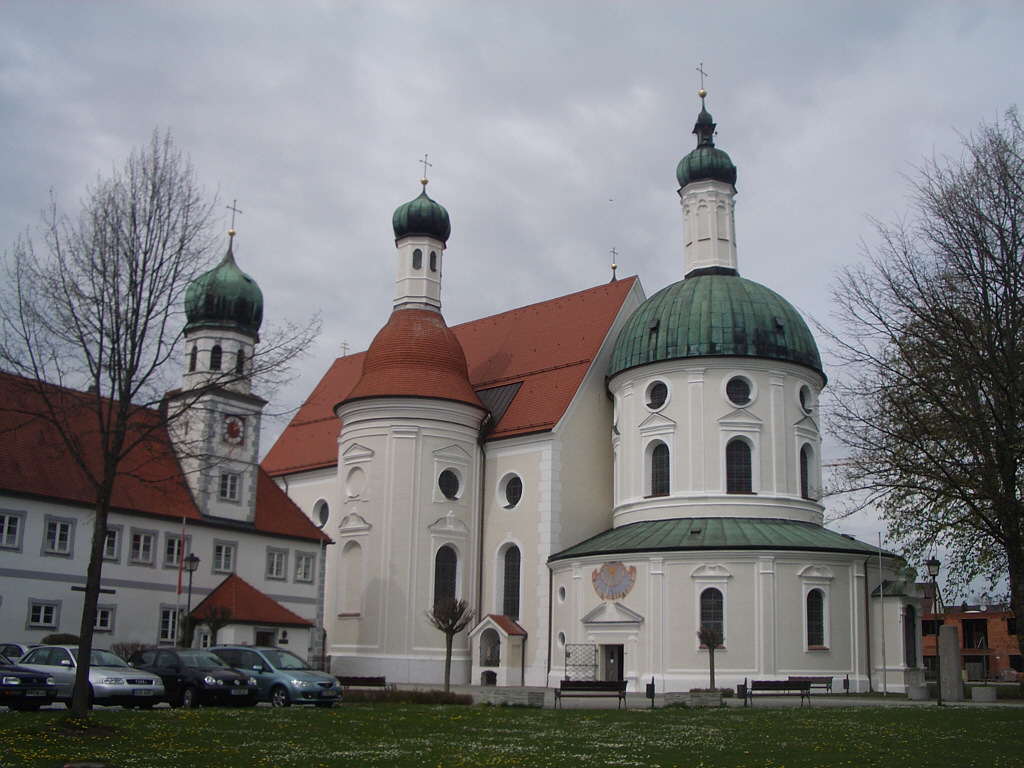 Klosterlechfeld, Germany: Wallfahrtskirche Maria Hilf, from Franziskanerplatz